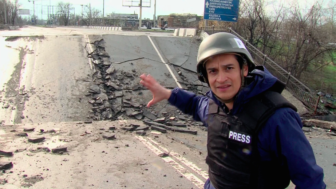 Carlos Gonzalez covering the war in Ukraine